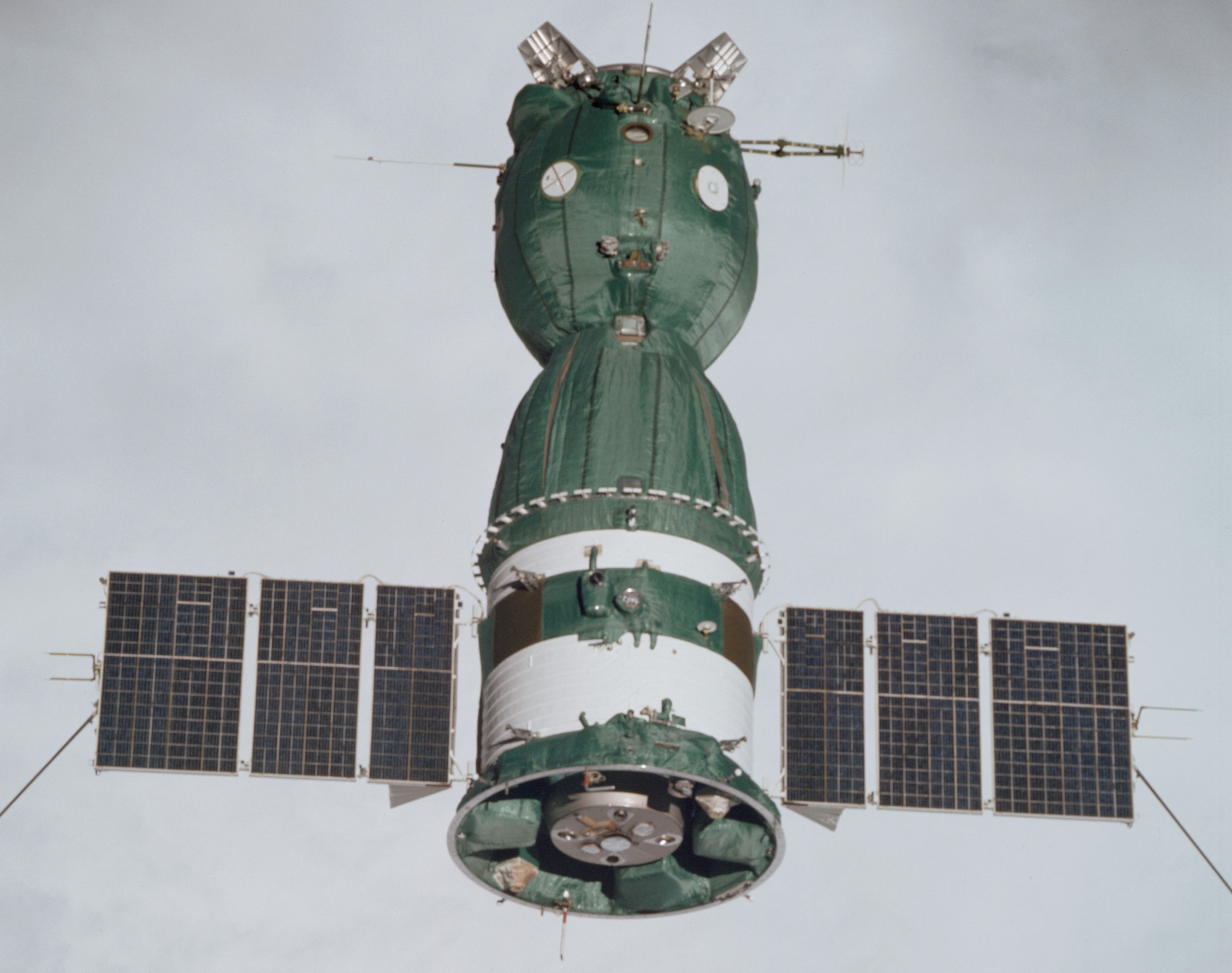 Soyuz 19 taken from the Apollo spacecraft on the ASTP mission. A view of the Soviet Soyuz spacecraft in Earth orbit, photographed from the American Apollo spacecraft during the joint U.S.-USSR Apollo Soyuz Test Project (ASTP) docking in Earth orbit mission. The Soyuz is contrasted against a white cloud background in this overhead view. The three major components of the Soyuz are the spherical-shaped Orbital Module, the bell-shaped Descent vehicle, and the cylindrical-shaped Instrument Assembly Module from which two solar panels protrude.